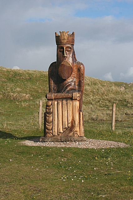 Chessman Sculpture The wooden sculpture by Stephen Hayward is based on one of the 93 walrus ivory Norse chessmen found near here in 1831. Most are now in the British Museum in London, but some are in the National Museum of Scotland in Edinburgh. See Lewis_chessmen for more information, though there seems to be a discrepancy in the numbers quoted there and on the information board by the sculpture.